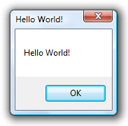 "Hello World!" program in AutoIt! 3.2 on Windows Vista